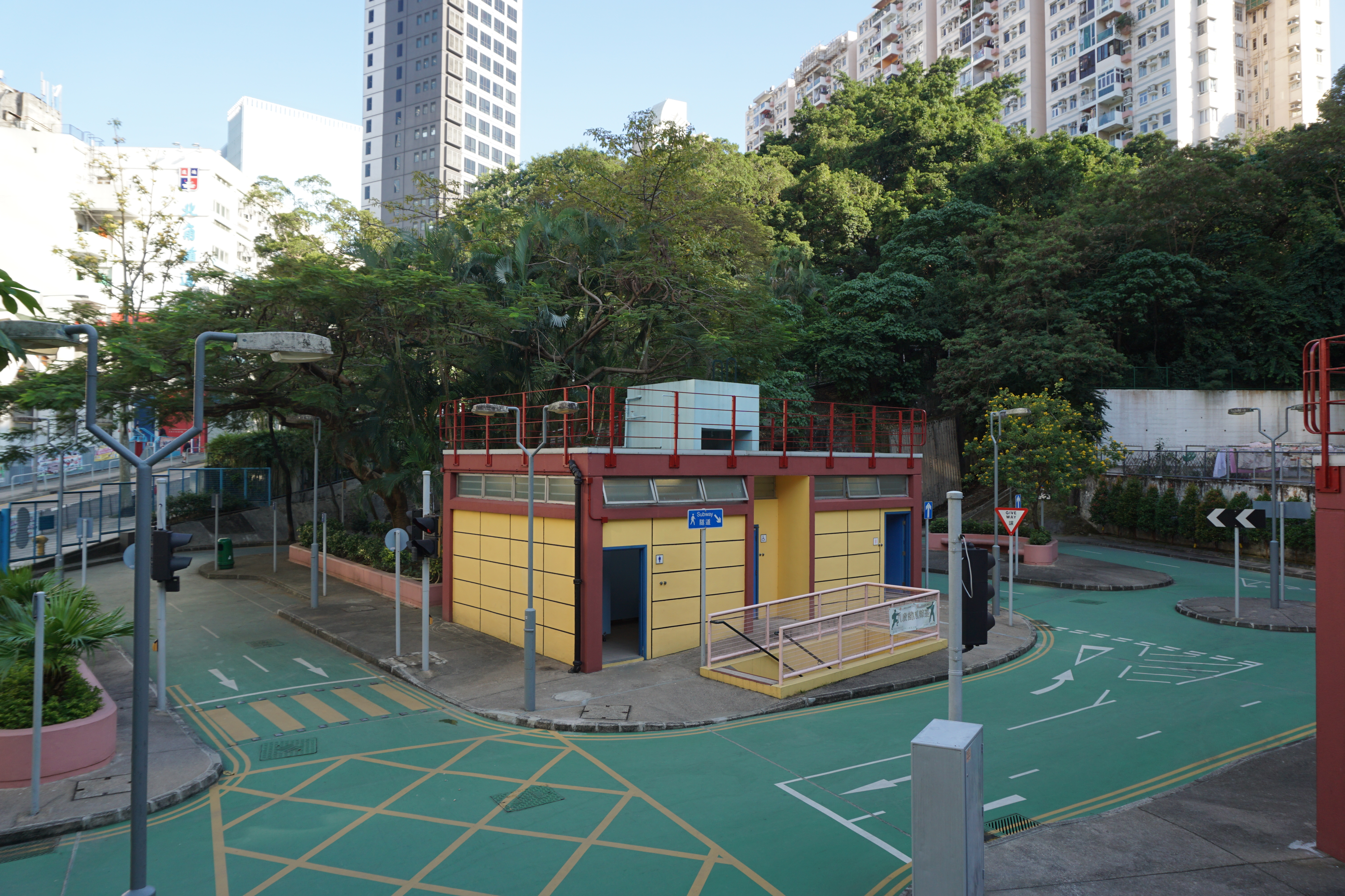 Pak Fuk Road Safety Town in North Point, Hong Kong.